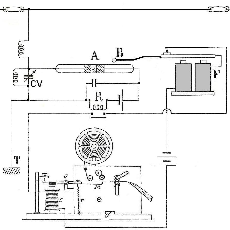 Early radio receiver circuit using a "Branly coherer", a tube containing metal filings, as a detector. This type of receiver, used until about 1906, made possible the first long distance radio telegraphy communication. In 1902: since the headlight of Stiff, tests by Camille Tissot of the station Ushant TSF with a radio operator receiver with coherer and an arc transmitter with two balls. This station with a range radio telegraphy of 80 kilometers with a fleet of 14 ships at sea and with . The radio waves from the antenna at top are applied through a resonant circuit consisting of a coil and tuning capacitor (CV) to the coherer (A). The coherer tube is in a series circuit with a 1.5V battery and a sensitive relay (R). When a radio wave arrives, the tube becomes conducting, and the relay closes a contact in a second circuit which contains a Morse paper tape recorder (E) and an electromagnet "decoherer" or "trembler" (F). The recorder registers the signal on the tape, while the arm of the electromagnet (B) lightly taps the coherer. This disturbs the metal filings, returning the coherer to its nonconducting state so it is prepared to detect the next radio symbol. In actual operation, if the radio signal is still present when the decoherer taps the tube, the coherer immediately turns on again, causing another tap. The result is a continuous tapping or "trembling" of the electromagnet arm during the duration of each incoming Morse code symbol.